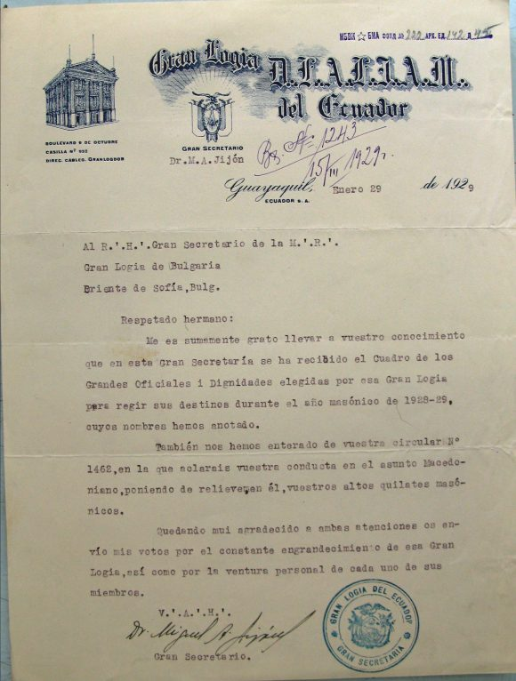 Letter from the Gran Logia del Ecuador to the Great Lodge of Bulgaria 29 January 1929